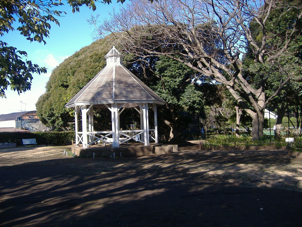 Yamate park(Yokohama, Japan)